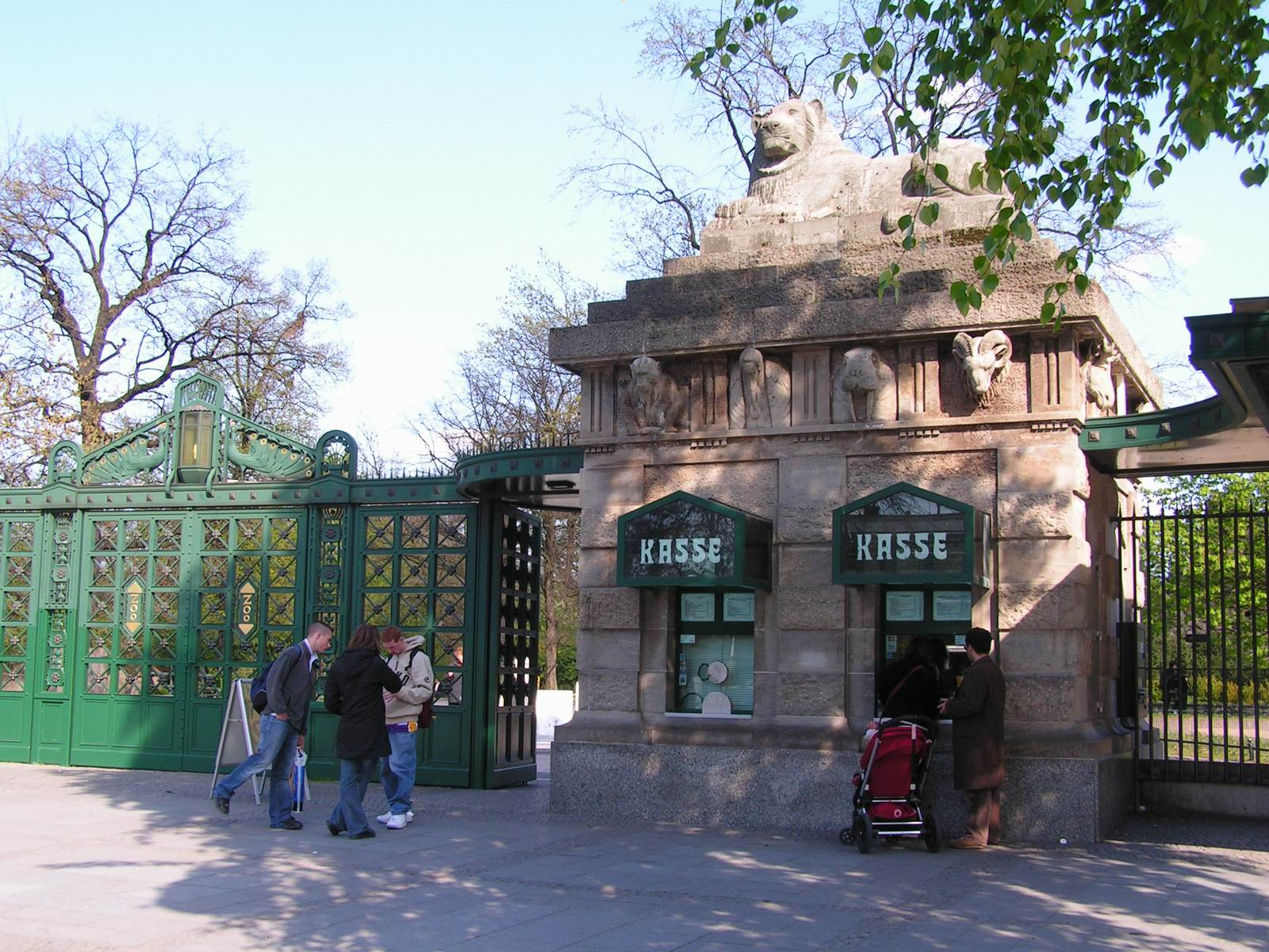 Entrance at Hardenbergplatz from Berlin's Zoo